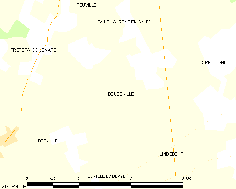 Map of French municipality Boudeville